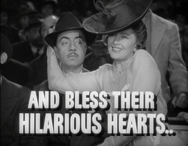 Cropped screenshot of William Powell and Myrna Loy from the trailer for Shadow of the Thin Man. Myrna Loy is wearing a costume designed by costume designer Robert Kalloch.